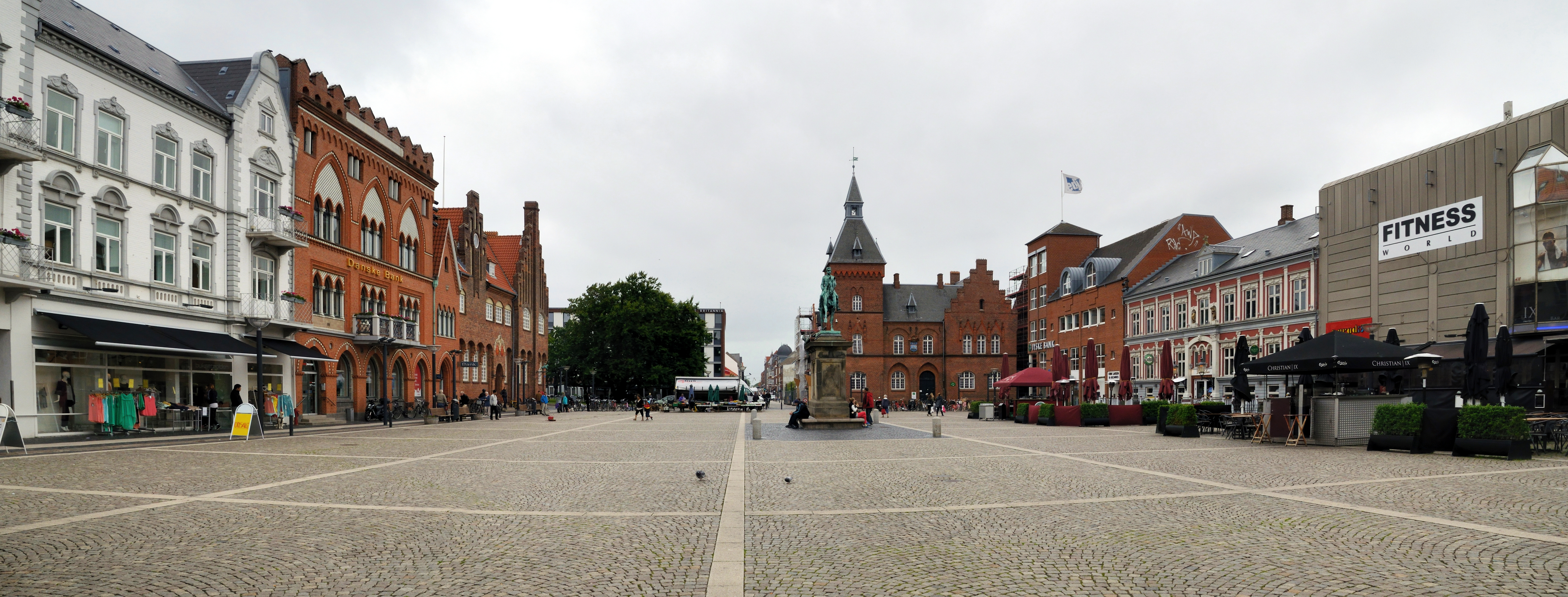 Esbjerg: market place